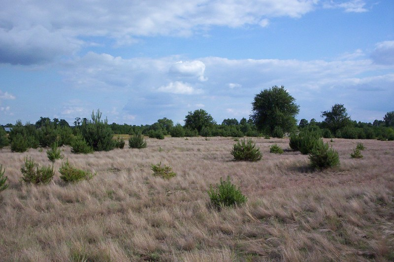 Secondary succession. Trees are growing on meadows and fields which are not cultivated anymore. Fields near Żyrardów, Bolimowski Park Krajobrazowy (Mazovia, Poland)